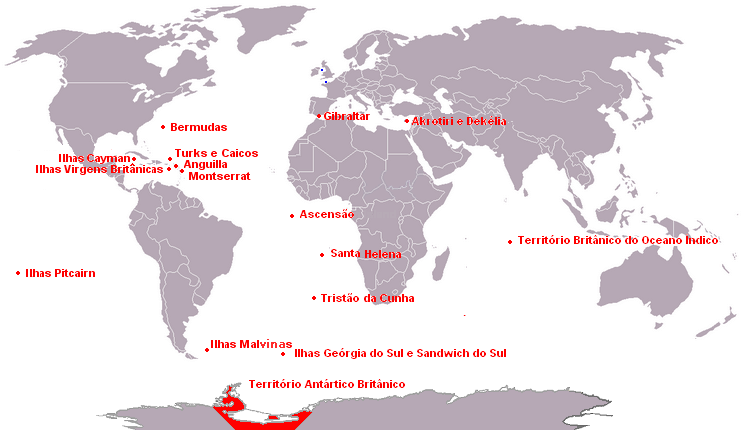 Location of the British overseas territories in Portuguese